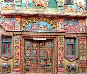 Decorated Main Gate of the Swaminarayan temple in Bhuj